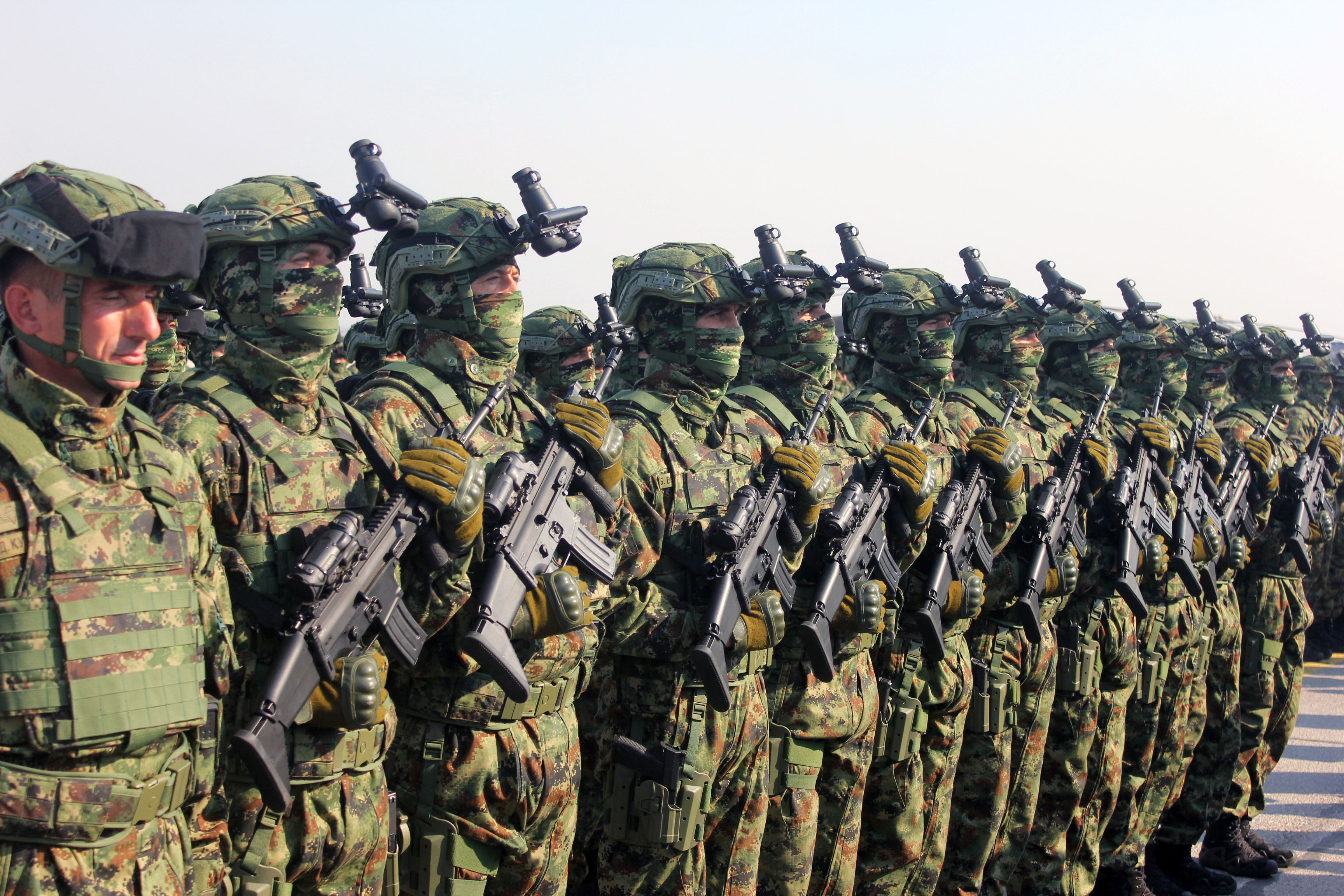 Serbian army on Sloboda 2019 military parade and exercise at "Colonel-pilot Milenko Pavlović" military airport.